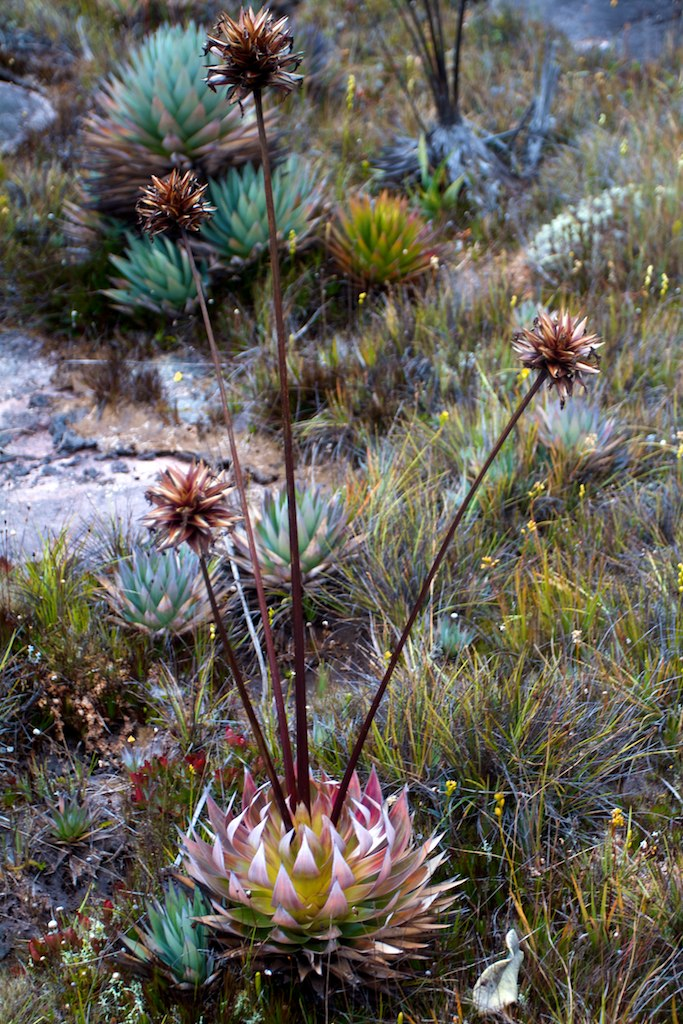 Endemic vegetation in mount Roraima